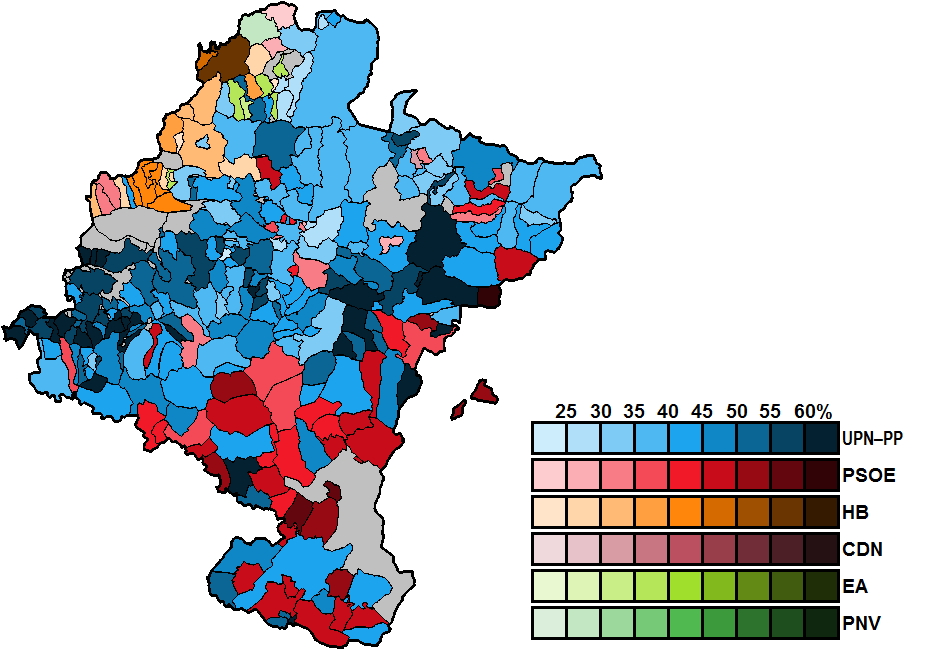 Most-voted party in Navarre municipalities, showing vote share obtained, in the Spanish general election, 1996.